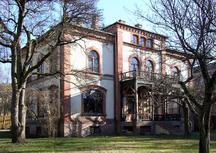 Biermans gate 6, Oslo. Villa built for brewer Amund Ringnes in 1889. Architect Harald Olsen.